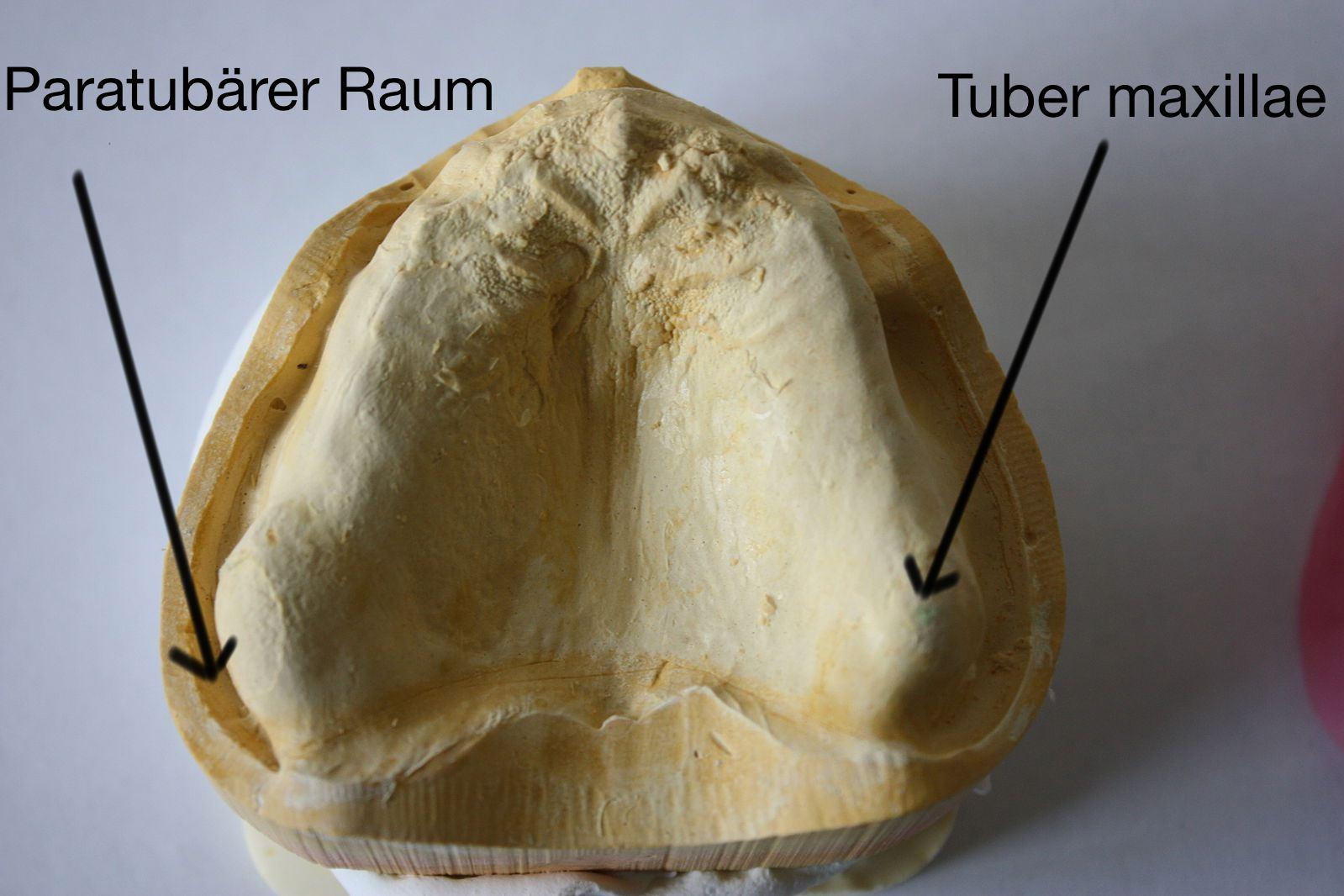 Plaster model upper jaw